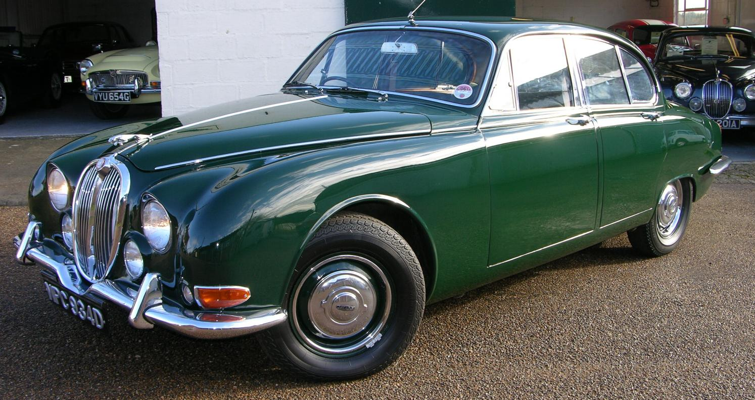 1966 Jaguar S Type 3.8